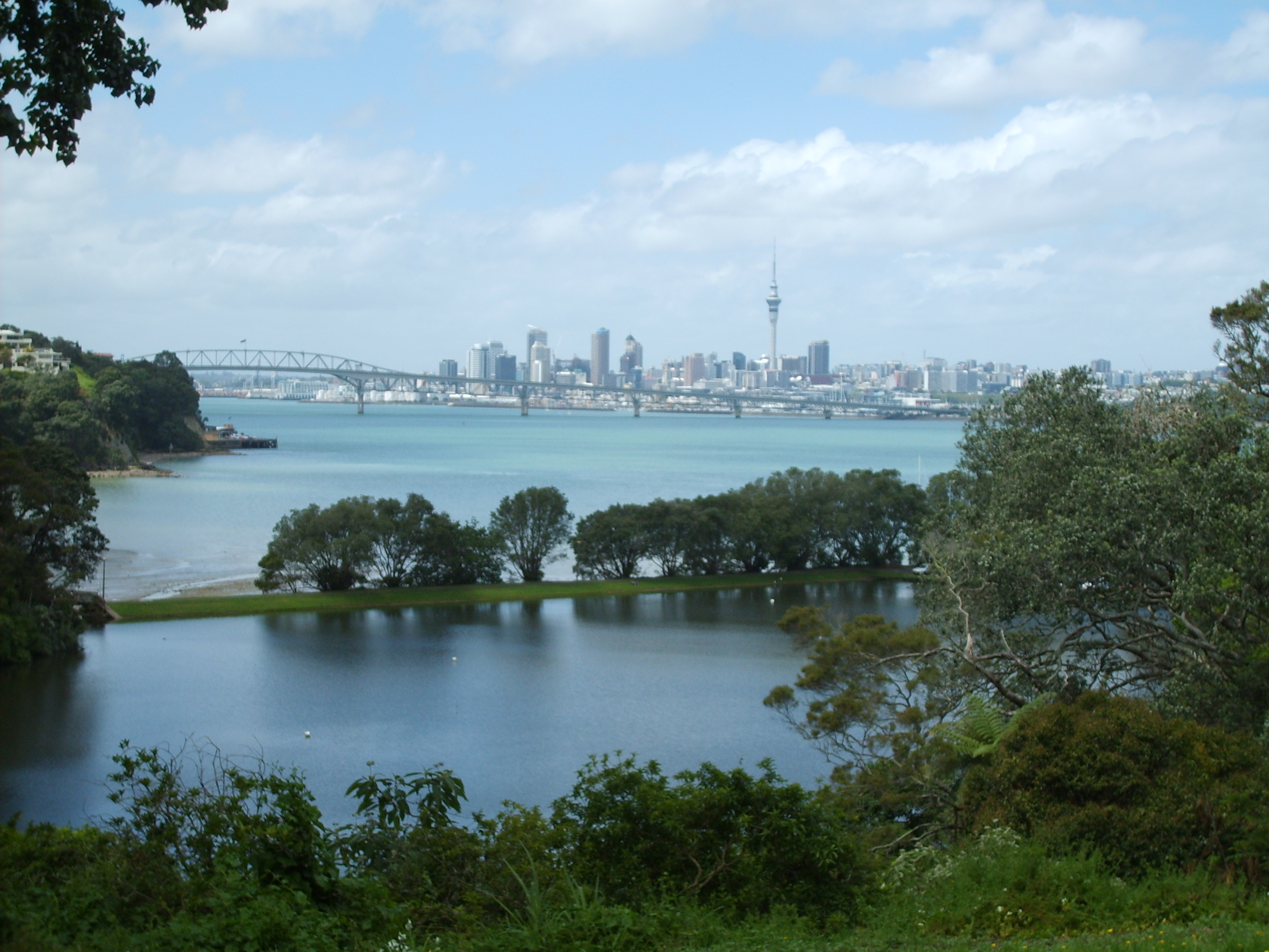 A View over Chelsea Sugar Refinery's lower dam towards Auckland Harbour Bridge and city